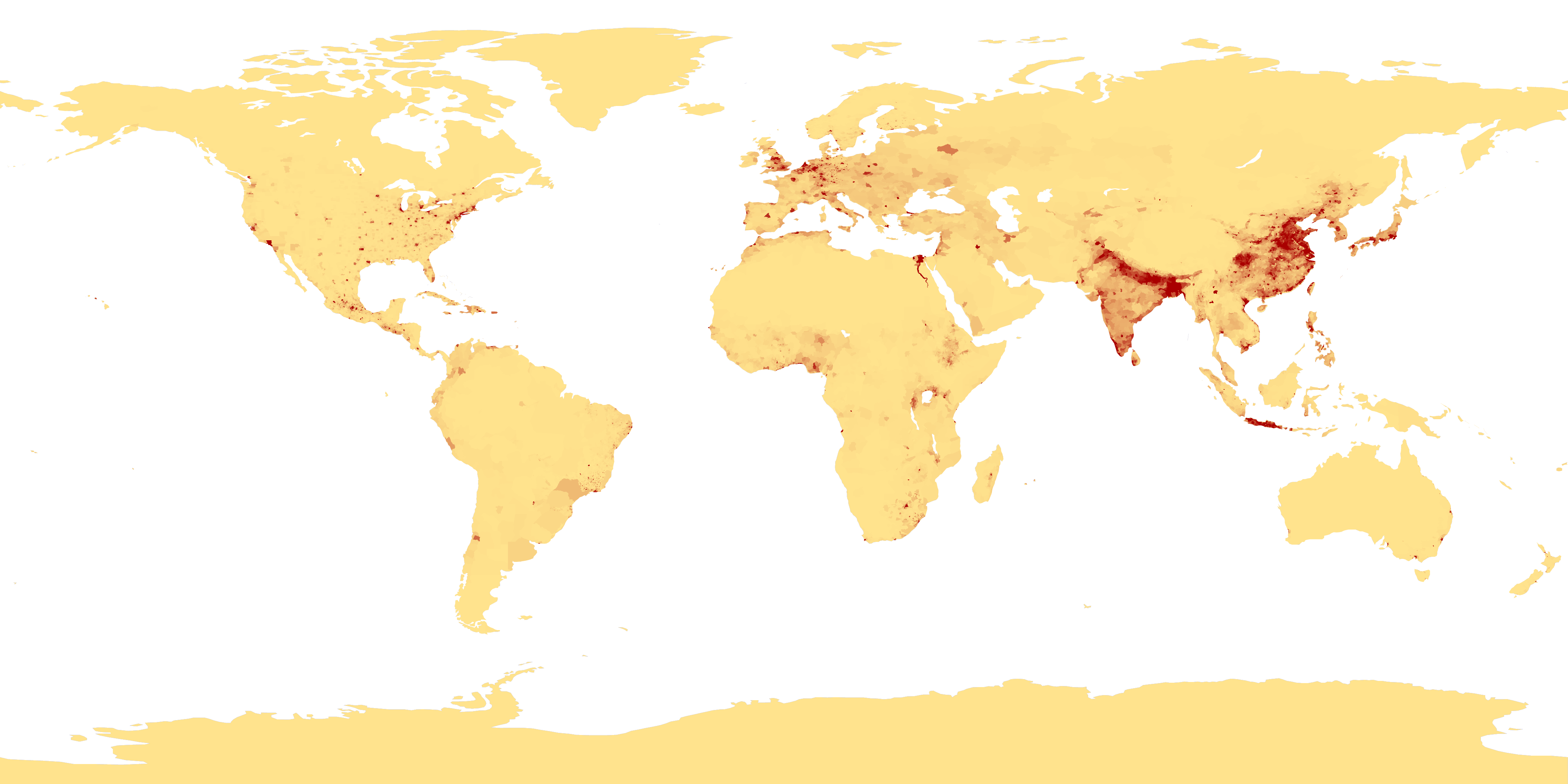 This image shows the number of people per square kilometer around the world in 1994. The data were derived from population records based on political divisions such as states, provinces and counties.